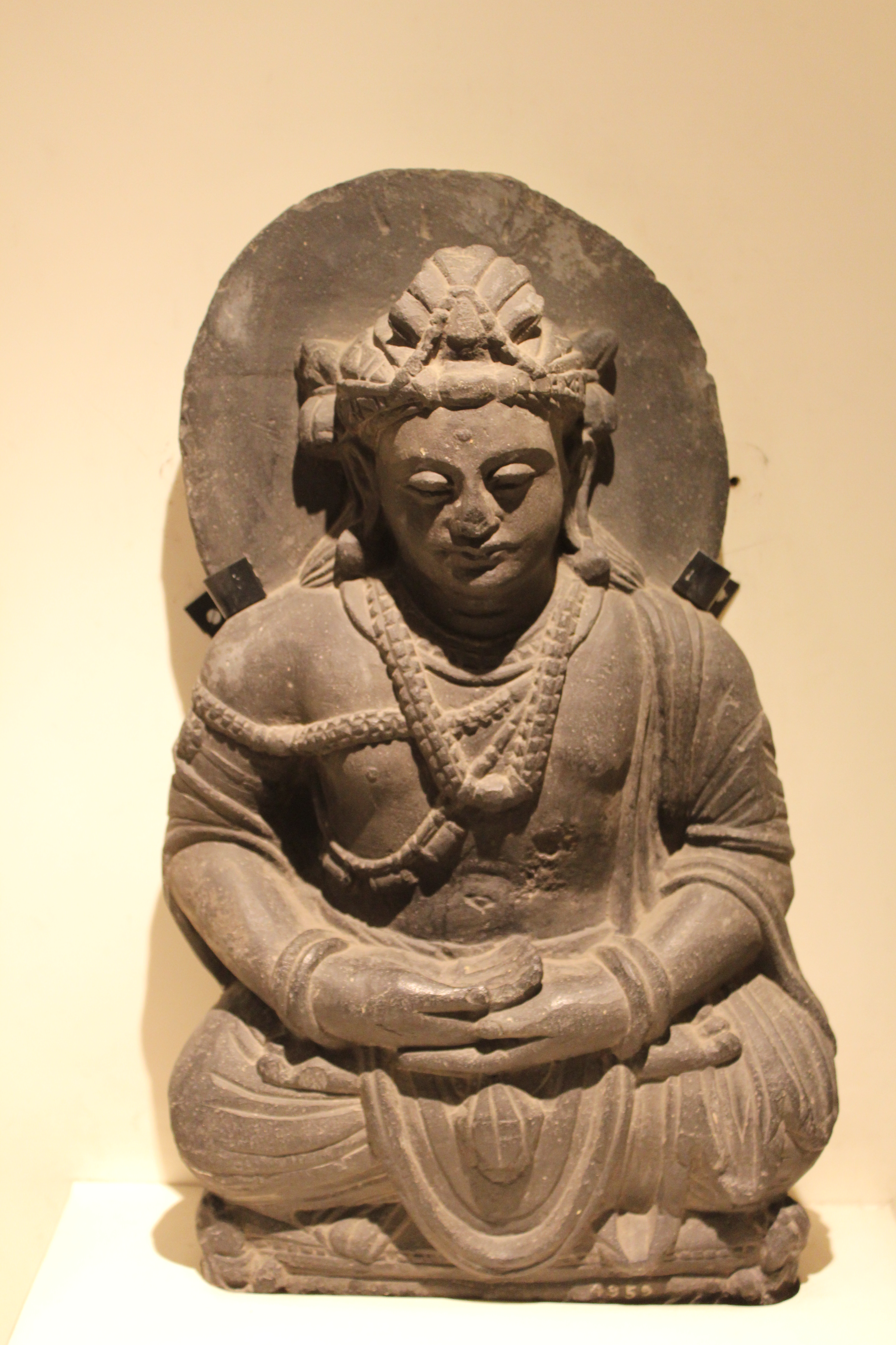 Gandhara Gallery of Indian Museum in West Bengal.